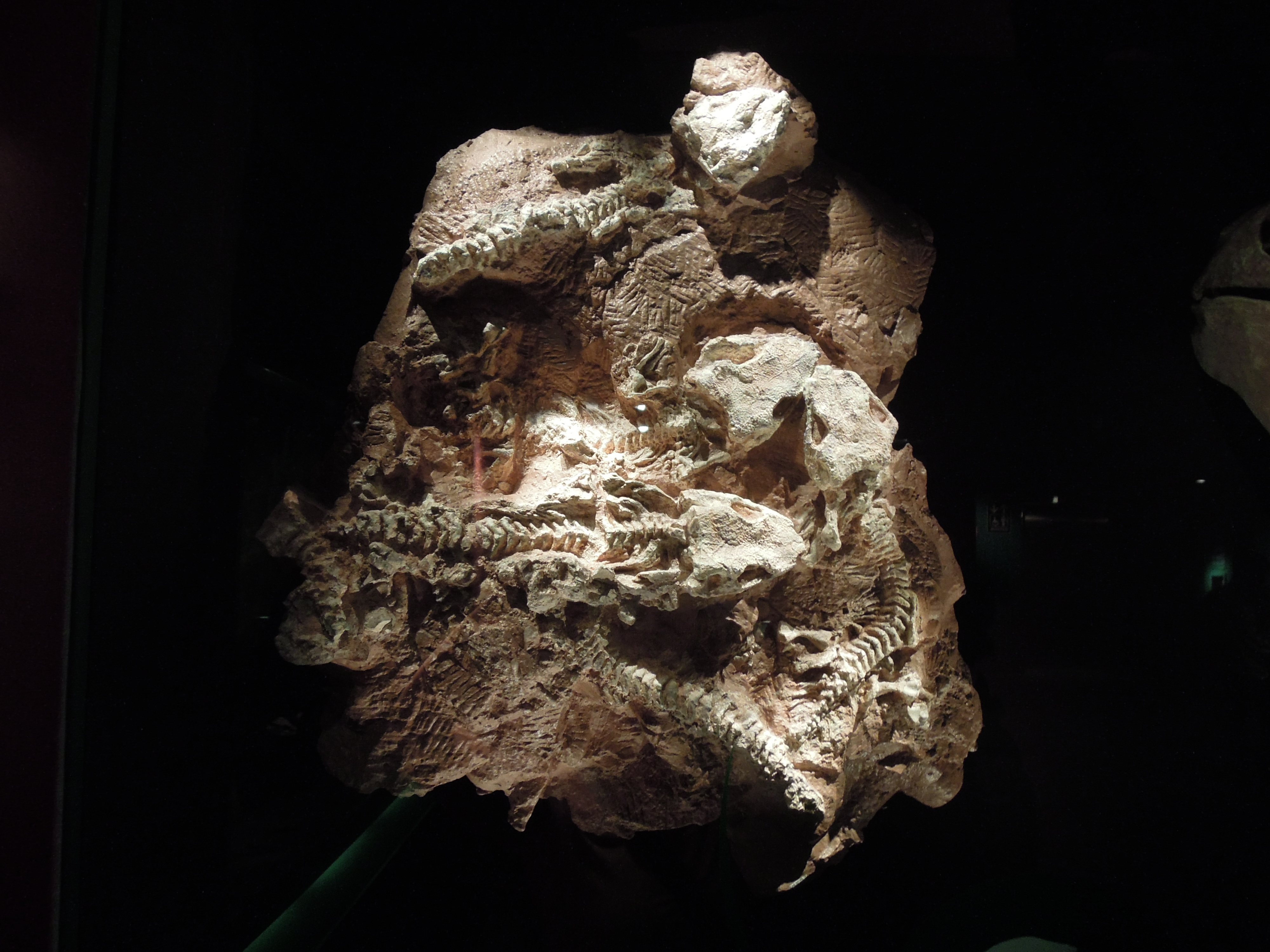 Kanada 2018